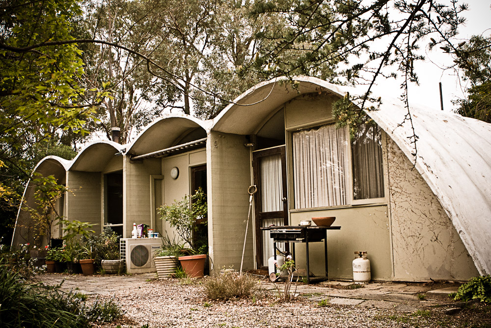 Kevin Borland's Rice House 1952-53